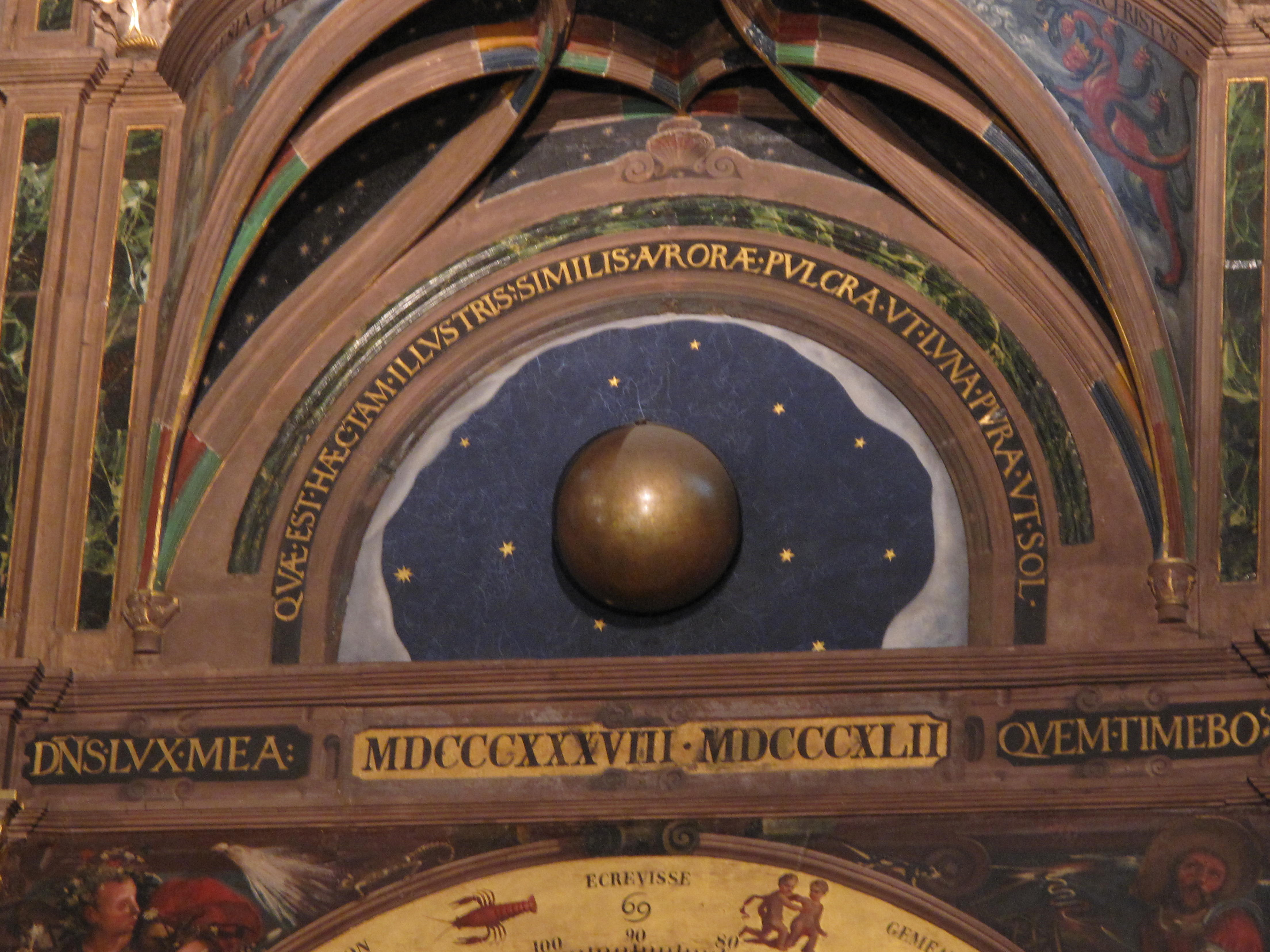 Globe of the phases of the moon on the astronomical clock of the cathedral of Strasbourg (Bas-Rhin, France).